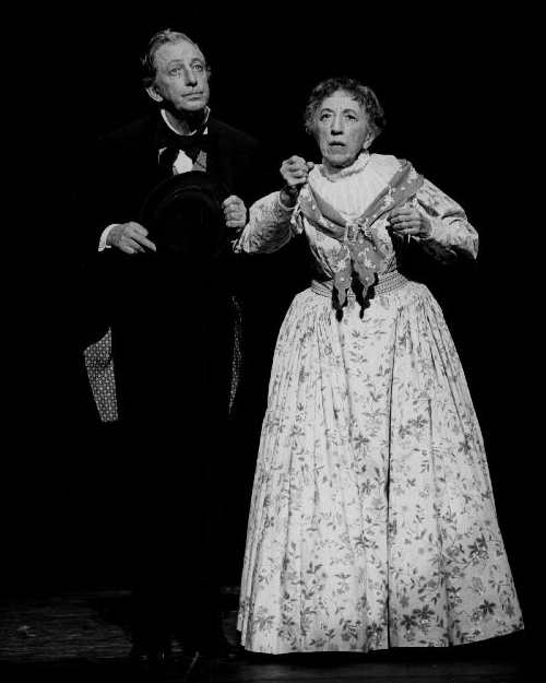 Publicity photo of American entertainers, Ray Bolger and Margaret Hamilton, promoting the February 12, 1969 Boston preview of the Broadway stage production of Come Summer.